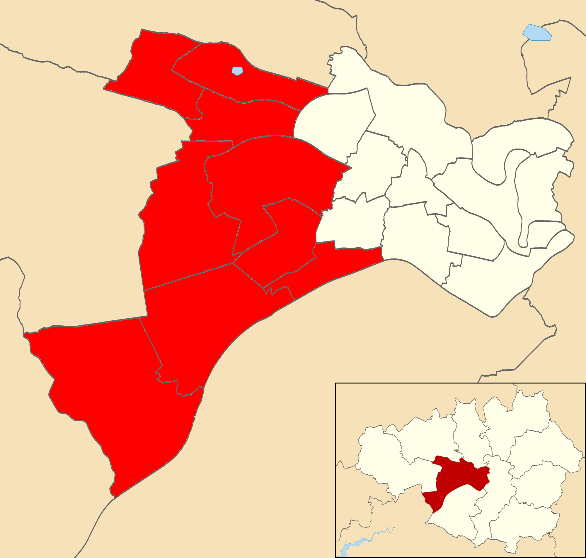 Map showing location of Worsley and Eccles South (UK Parliament constituency) with wards on Salford City Council.